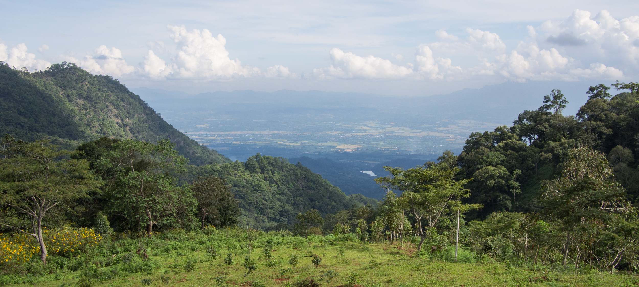 View of the Fang valley from road 1340. This road runs mainly over a mountain ridge and eventually leads to Doi Angkhang which lies in the Daen Lao Range. The mountains in the distance across the valley are the northern reaches of the Khun Tan Range.